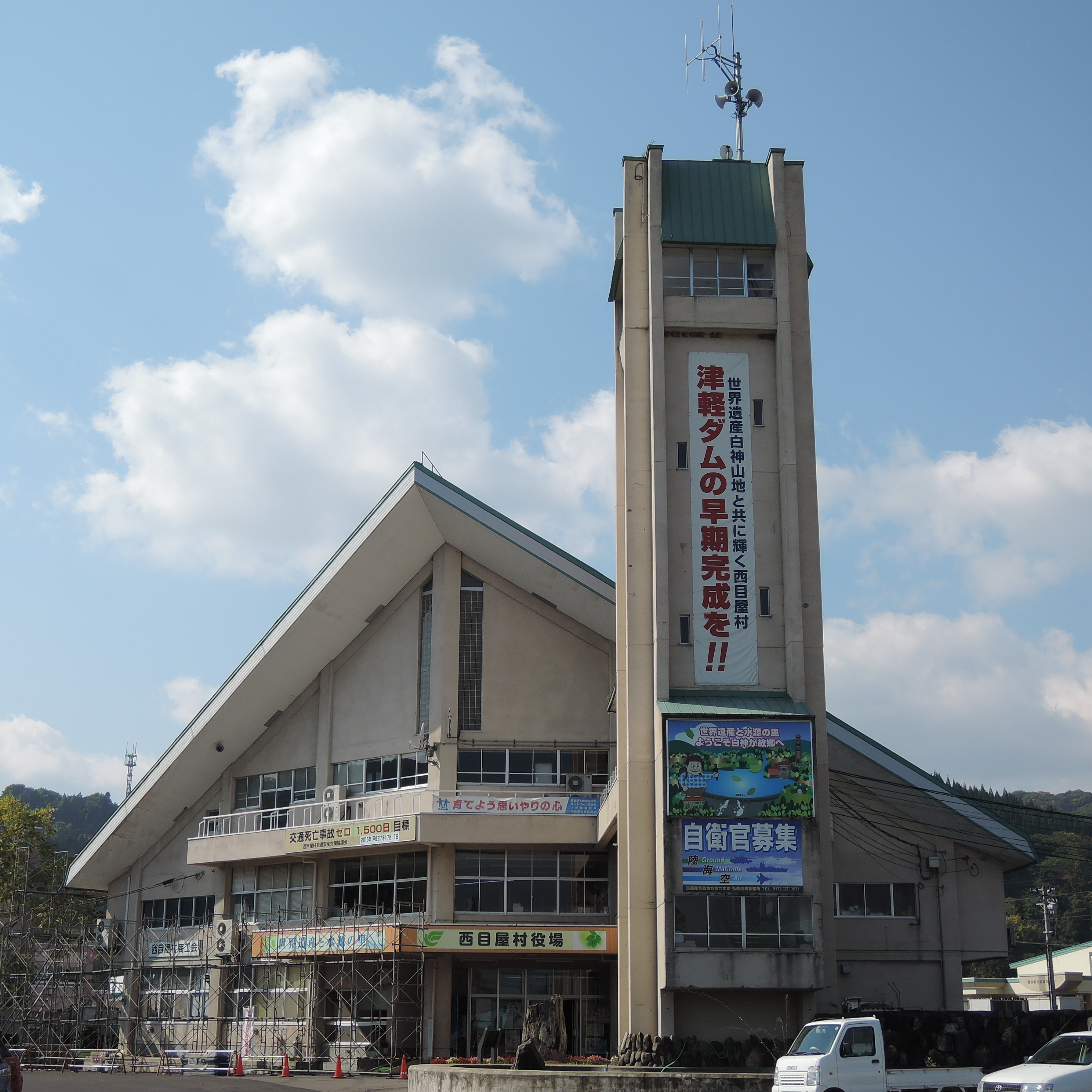 Nishimeya town hall,Aomori prefecture,Japan